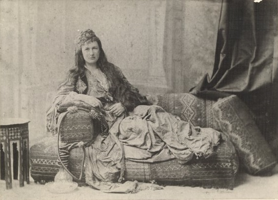 Portrait of Australian author Mrs. Jessie Catherine Couvreur, nee Hybers ("Tasma"). Tasma photographed in Turkish costume, as described in her diary entry for May 1889. Identifier: nla.pic-an25128196 Bib: idvn3049072 Call number(s): PIC Box PIC/8543 #PIC/8543/1 *